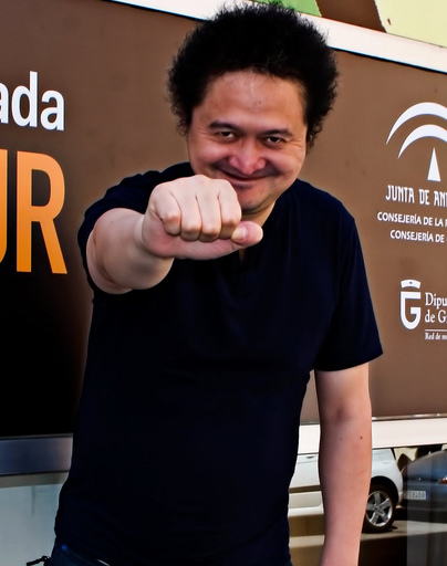 The chinese fimmaker Zhan Yuang during the presentation of his film "Seventeen Years", scheduled within the retrospective China 21st Century